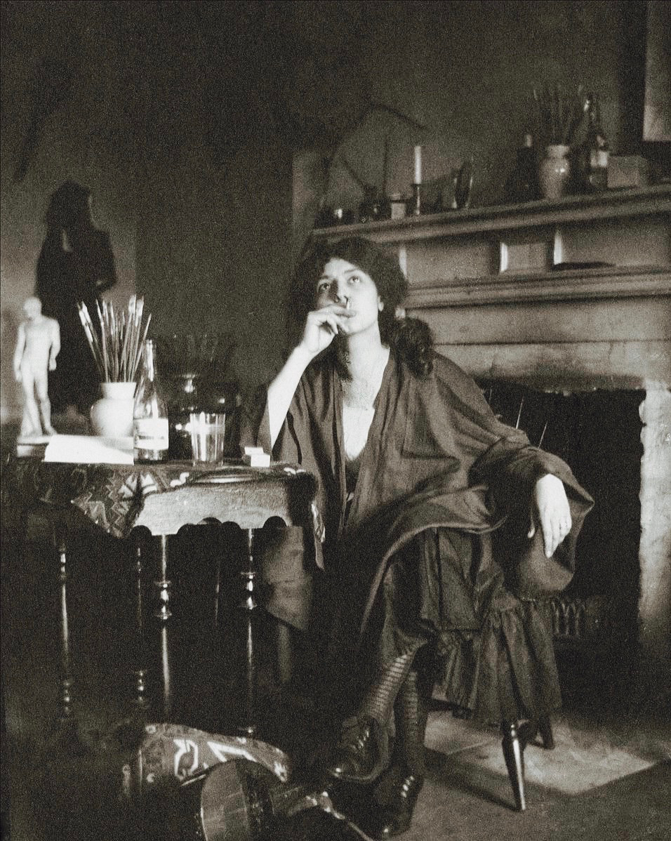 Candida Natiello Colosimo in her American studio, around 1900. Digital photograph restoration.